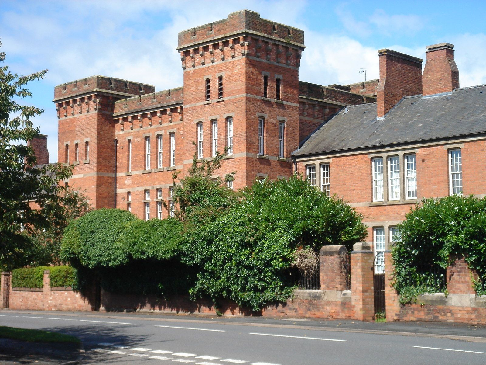 Norton Barracks, now converted to apartments